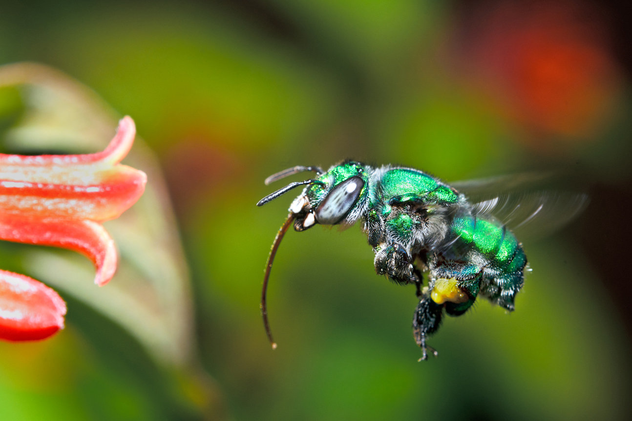 An Orchid Bee hovering in flight. This is an invasive species now widespread in South Florida. A similar species to the Bazinga Bee.